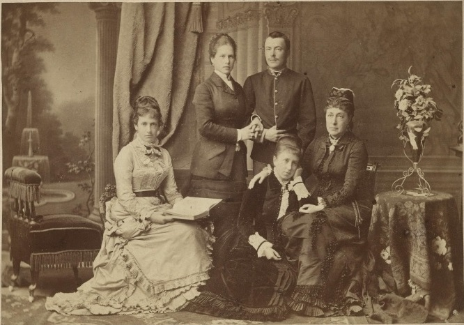 Persons shown in the photo: Standing: Archduke Friedrich of Austria-Teschen with wife Isabelle Princess of Croy-Dülmen. Sitting from right to left: Friedrich's mother Elisabeth Franciska Archduchess of Austria (1831–1903, widow of Karl Ferdinand †1874, daughter of Archduke Joseph Anton Johann of Austria), and her daughters Archduchess Maria Christina Desirée and Archduchess Maria Theresia of Austria-Este-Modena (daughter from 1st marriage with Ferdinand of Este-Modena)